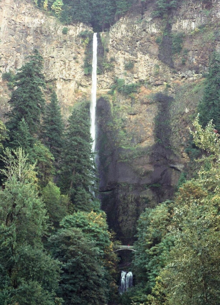 Multnomah Falls, Columbia River Gorge, Oregon, USA.